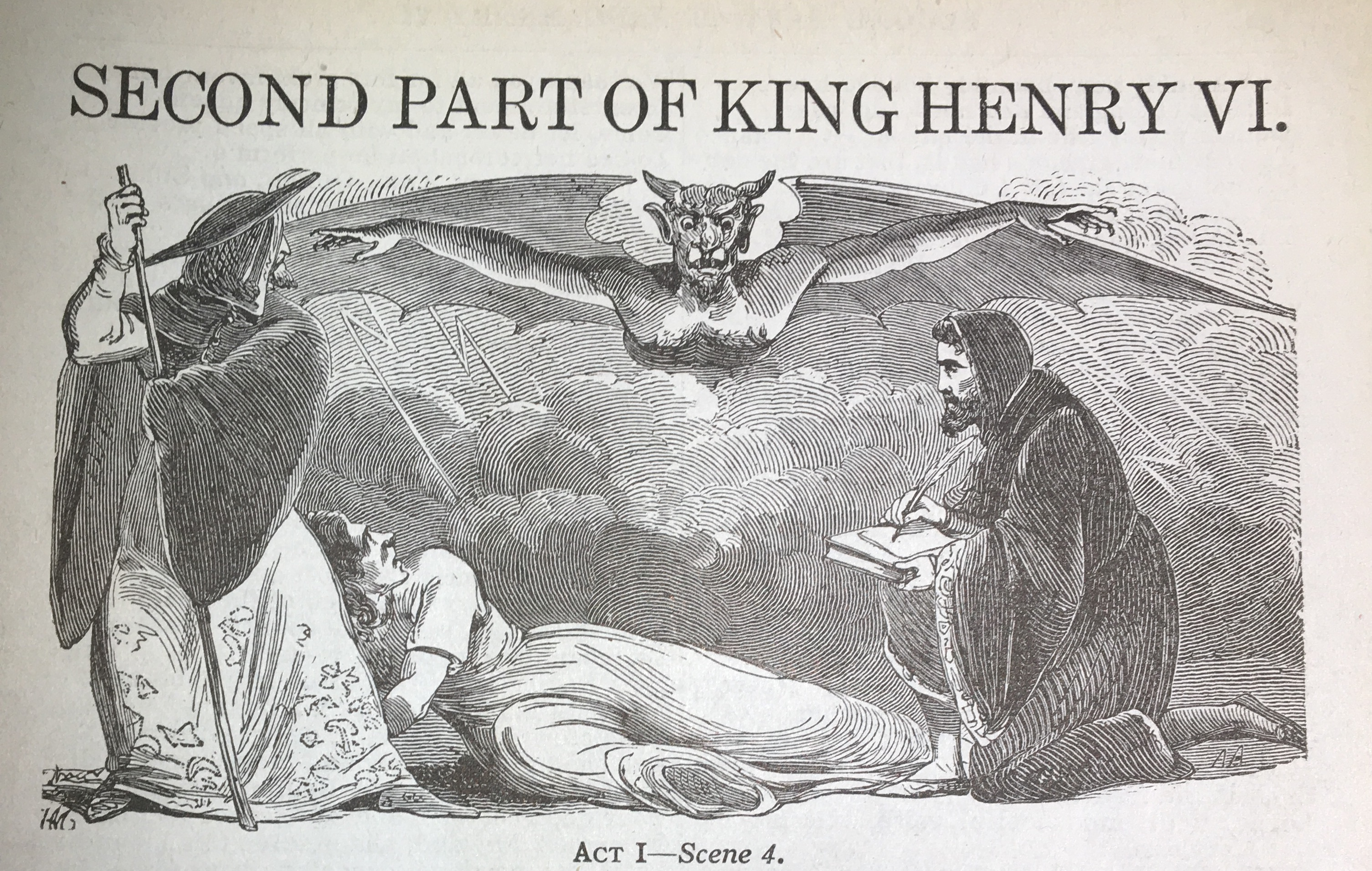 A lithograph image depicting a scene from King Henry VI Part II